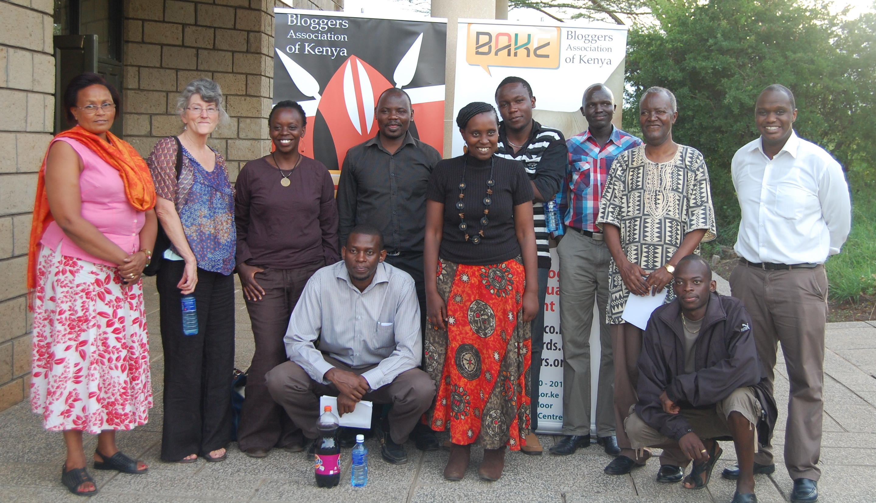 Daystar LPA Faculty and BAKE staff at the launch of Daystar University BAKE Chapter on March 26, 2014